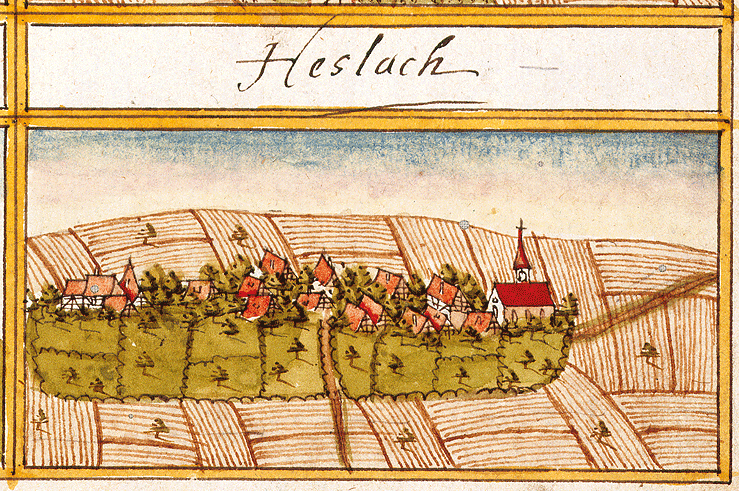 View of Häslach, Walddorfhäslach, from the forest register books created by Andreas Kieser